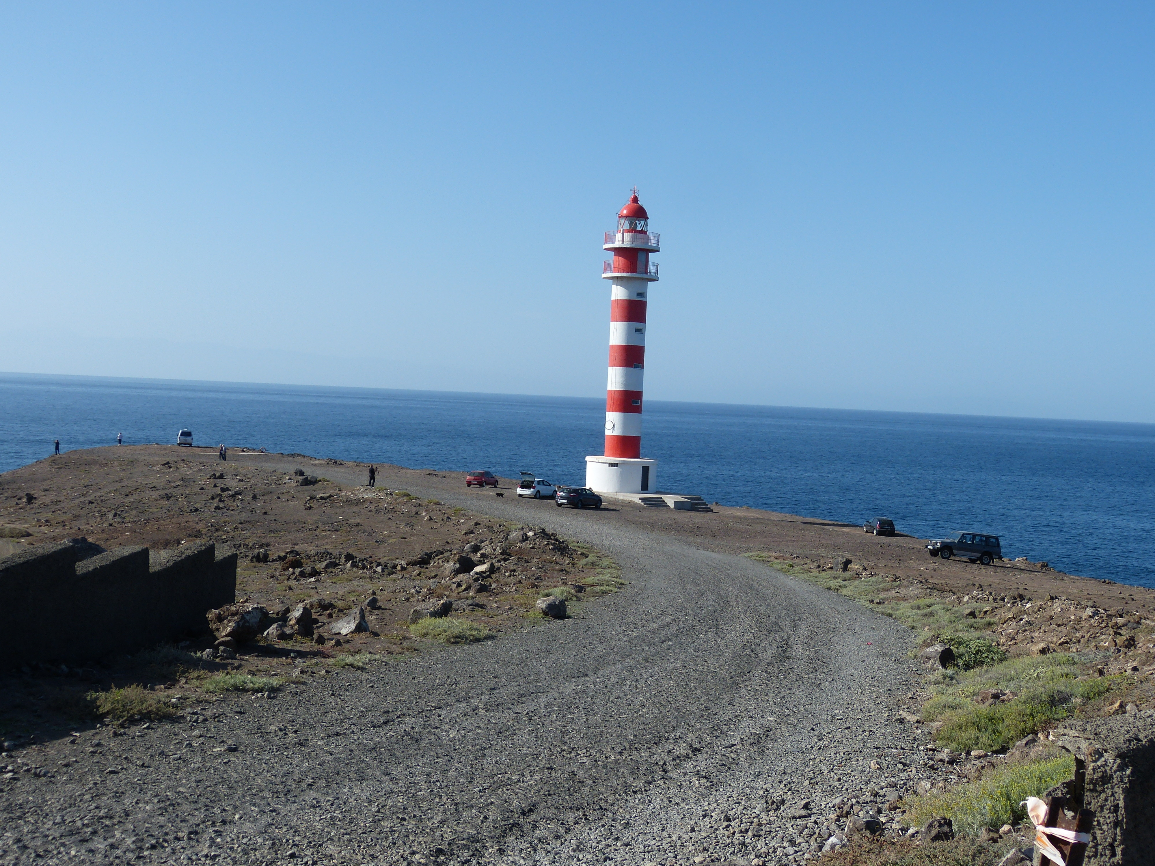 Sardina del Norte ( Gran Canaria ). Lighthouse.